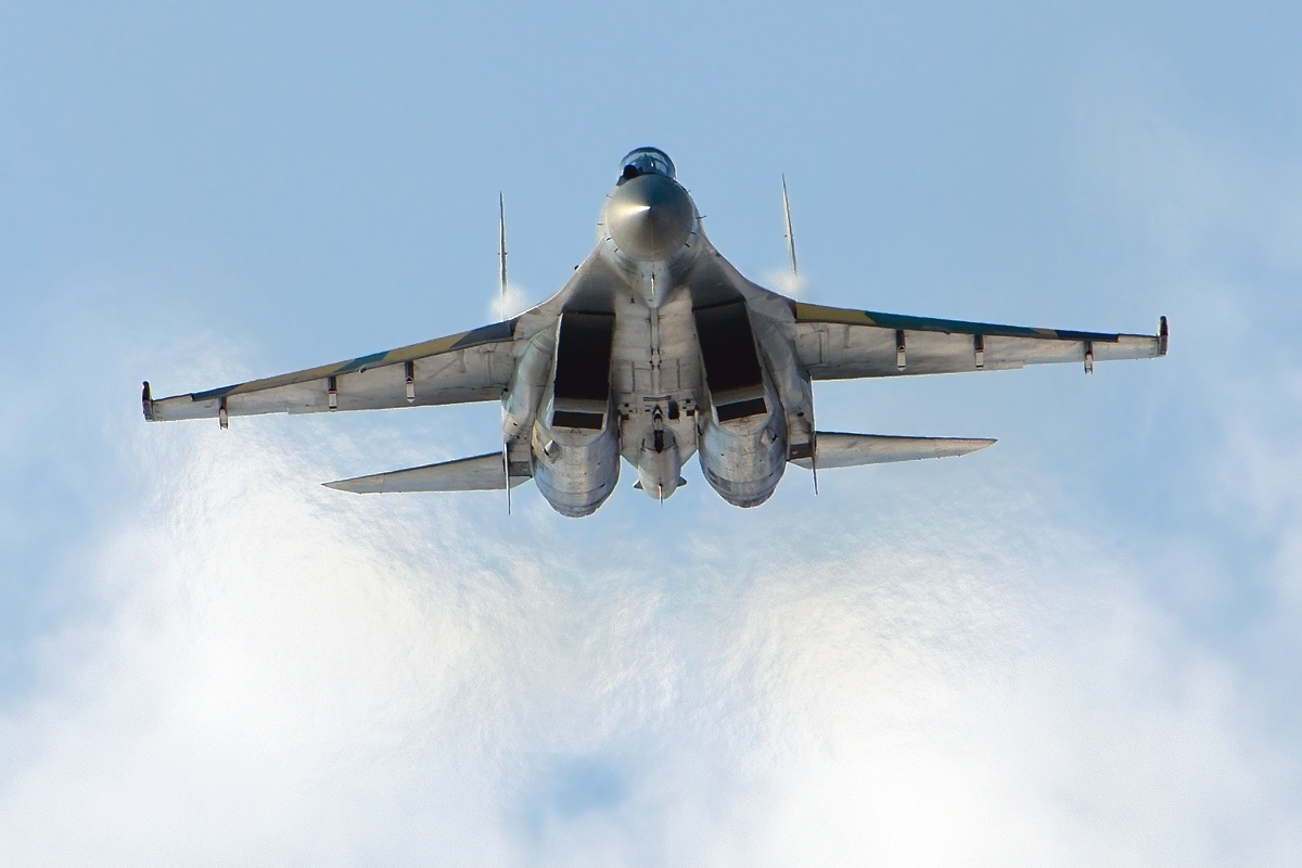 Sukhoi Su-35S (Su-35BM) multirole fighter at MAKS-2011 airshow